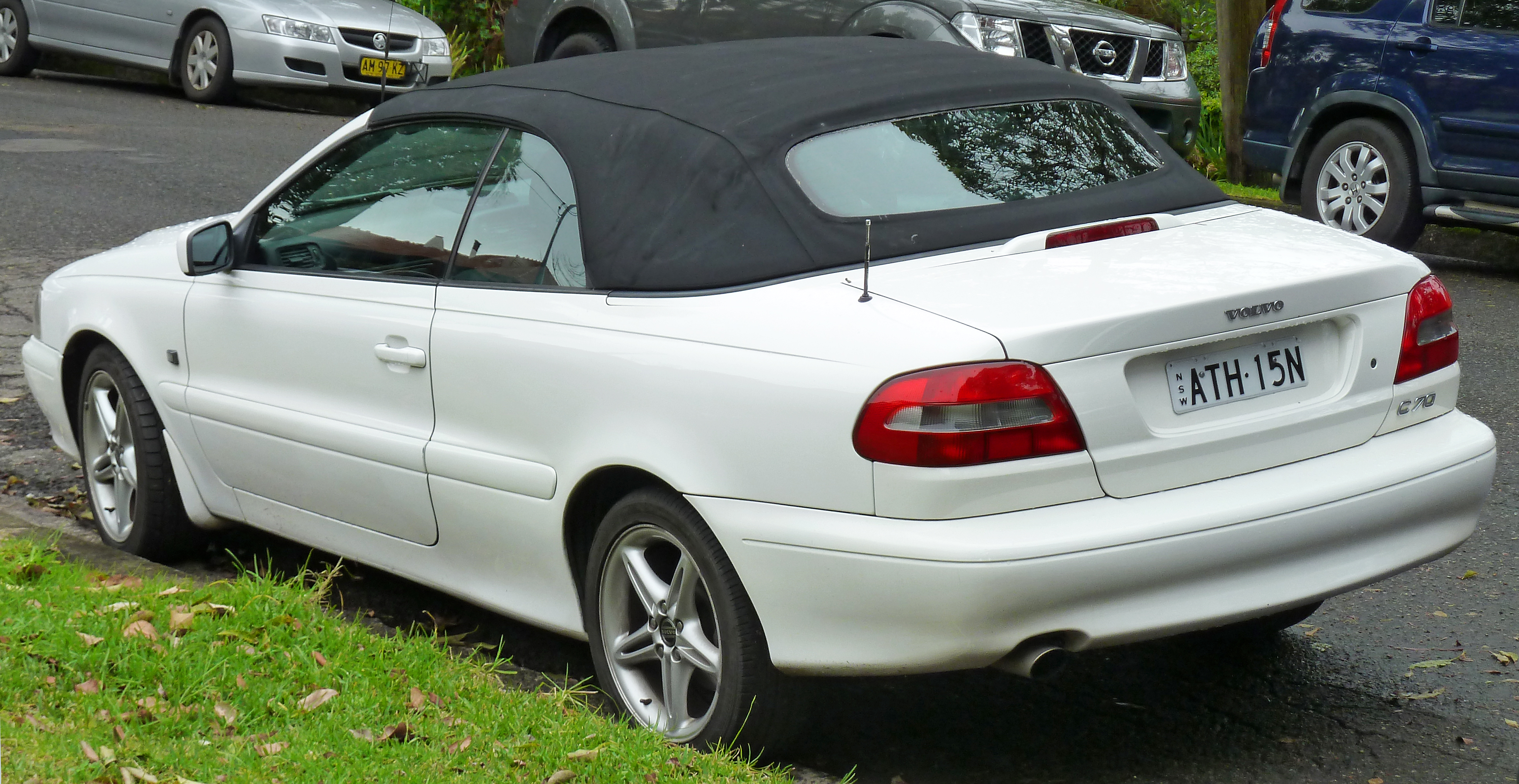 1999–2002 Volvo C70 convertible. Photographed in Gordon, New South Wales, Australia.